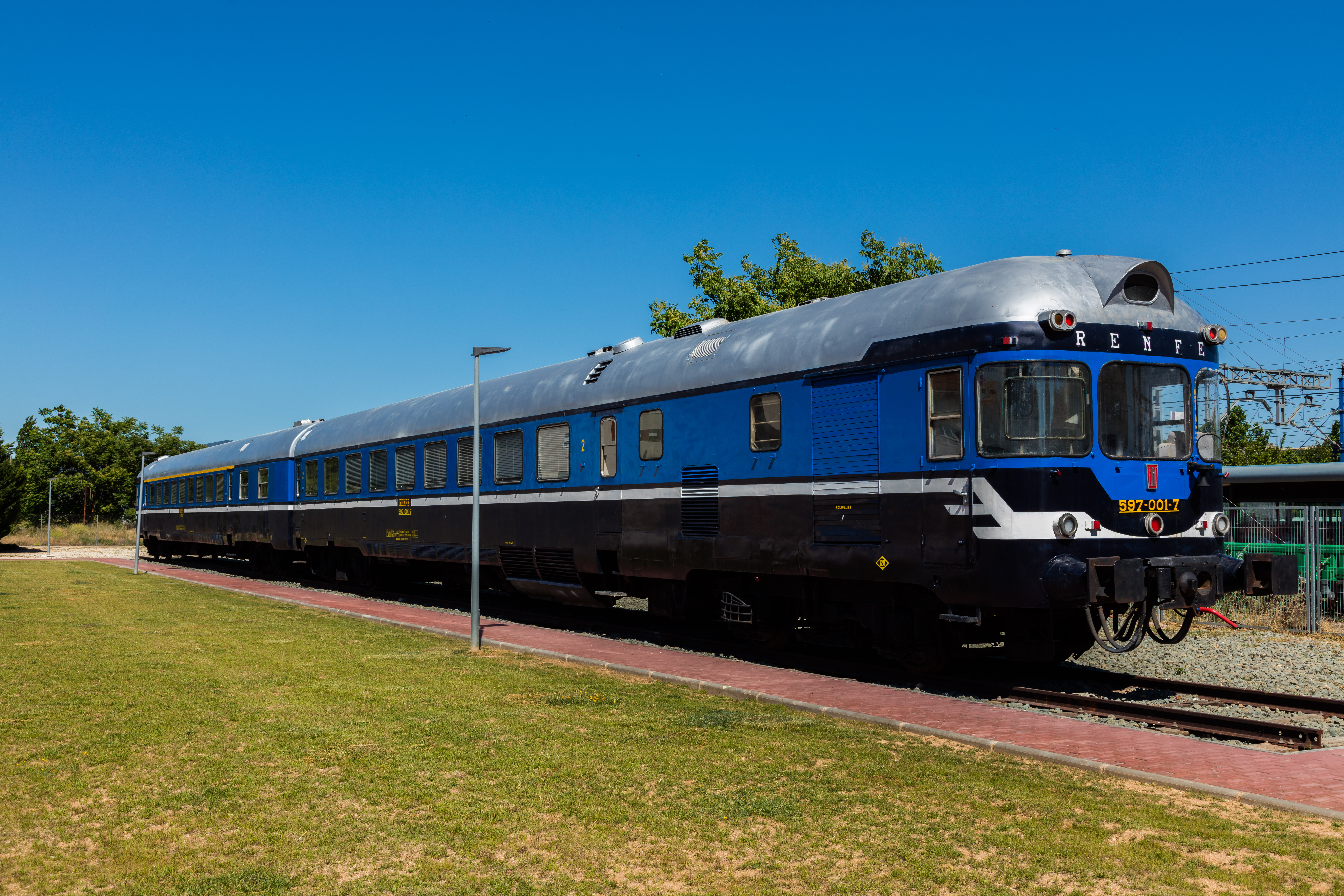 Exhibition TER train, model Fiat TER 9701, Calatayud, Spain